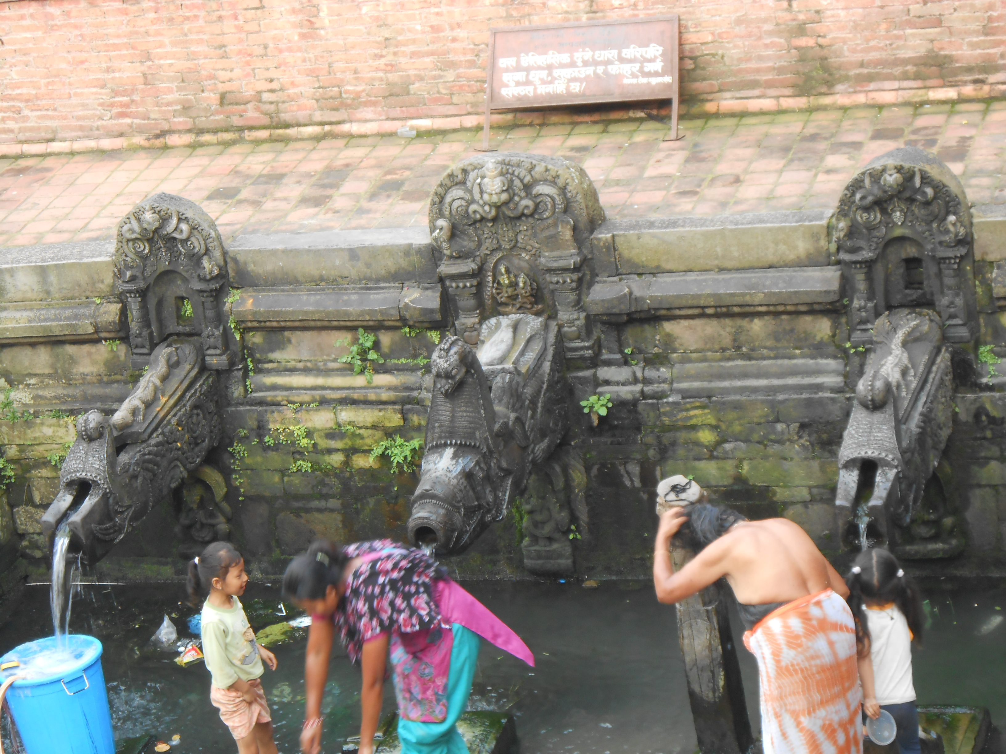 mnghiti